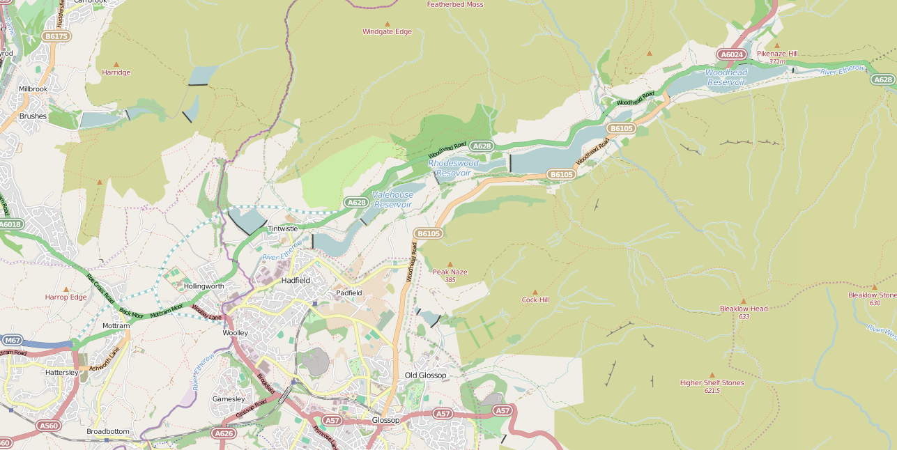 Map of the Longdendale Chain group of reservoirs.